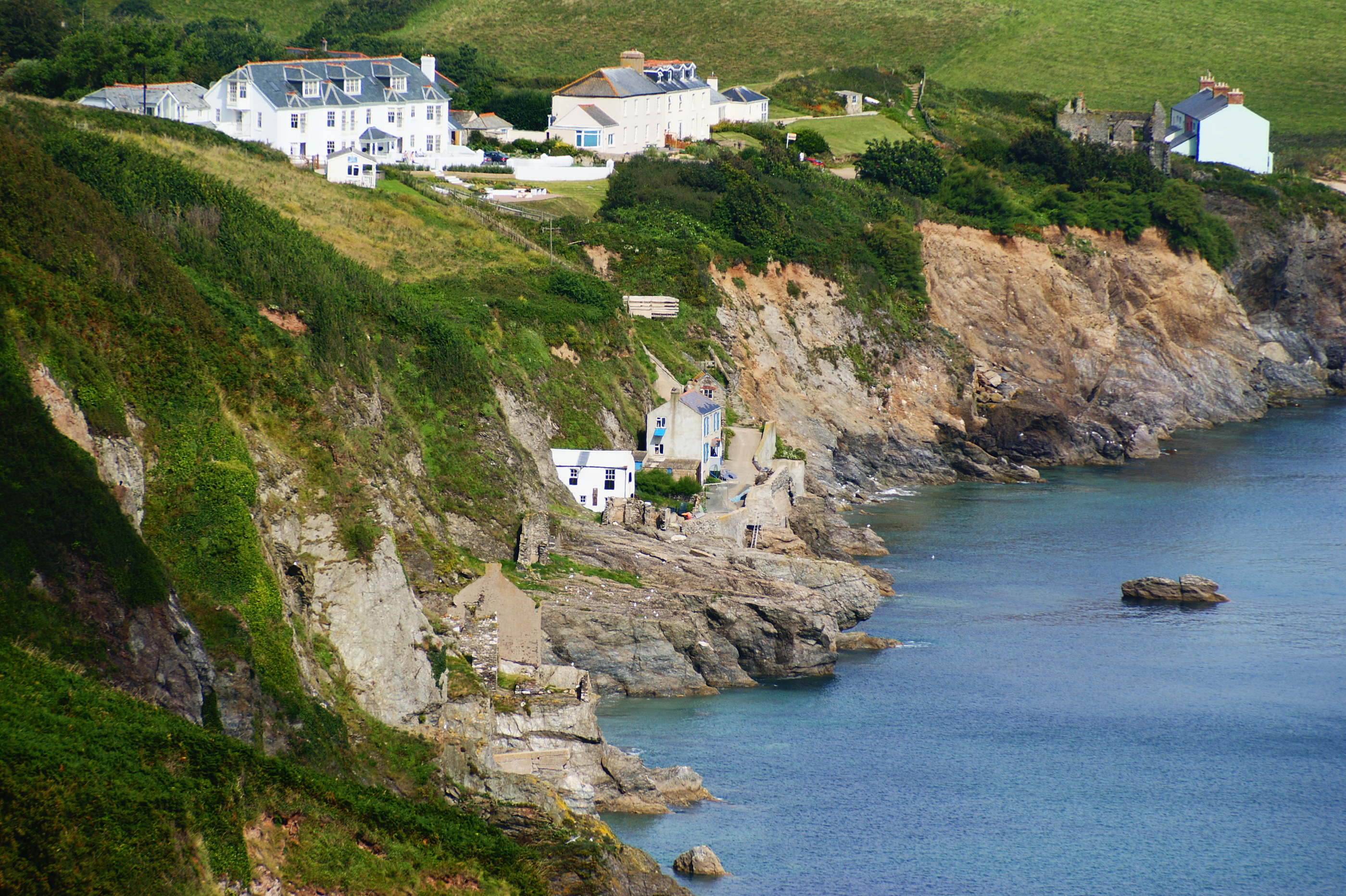 This is a view looking down on the village of Hallsands in Devon. Some of the remaining buildings can be seen. On the edge of the sea (centre & near) are ruins and in the upper right is another ruin the village having been partly destroyed by the sea.